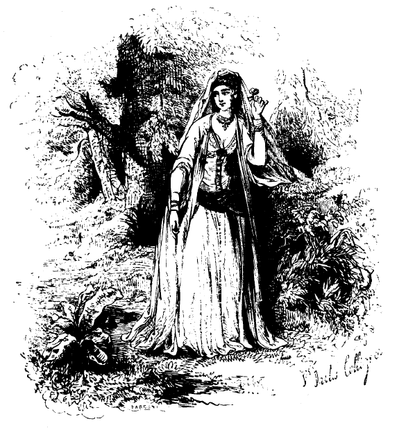 Heyran khanim